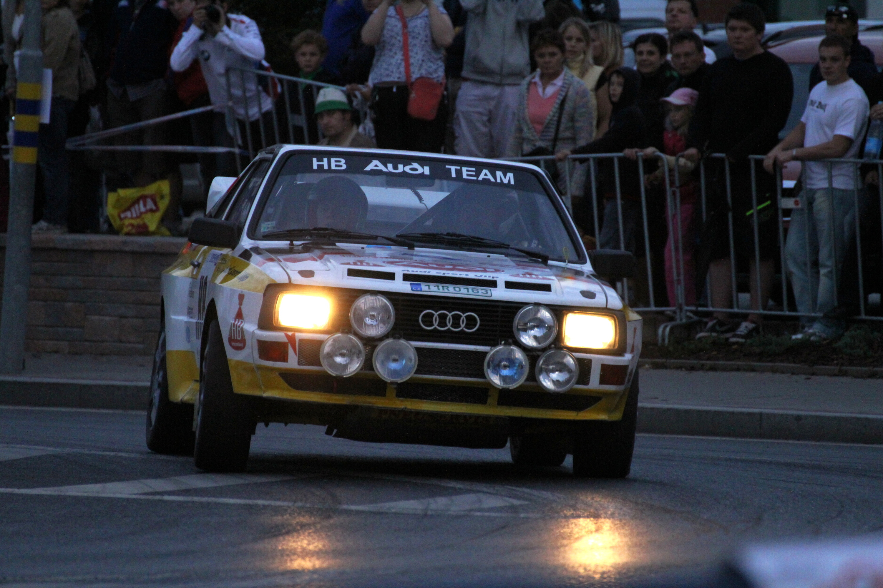 Rally Bohemia 2011 HS - Audi Sport Quatro